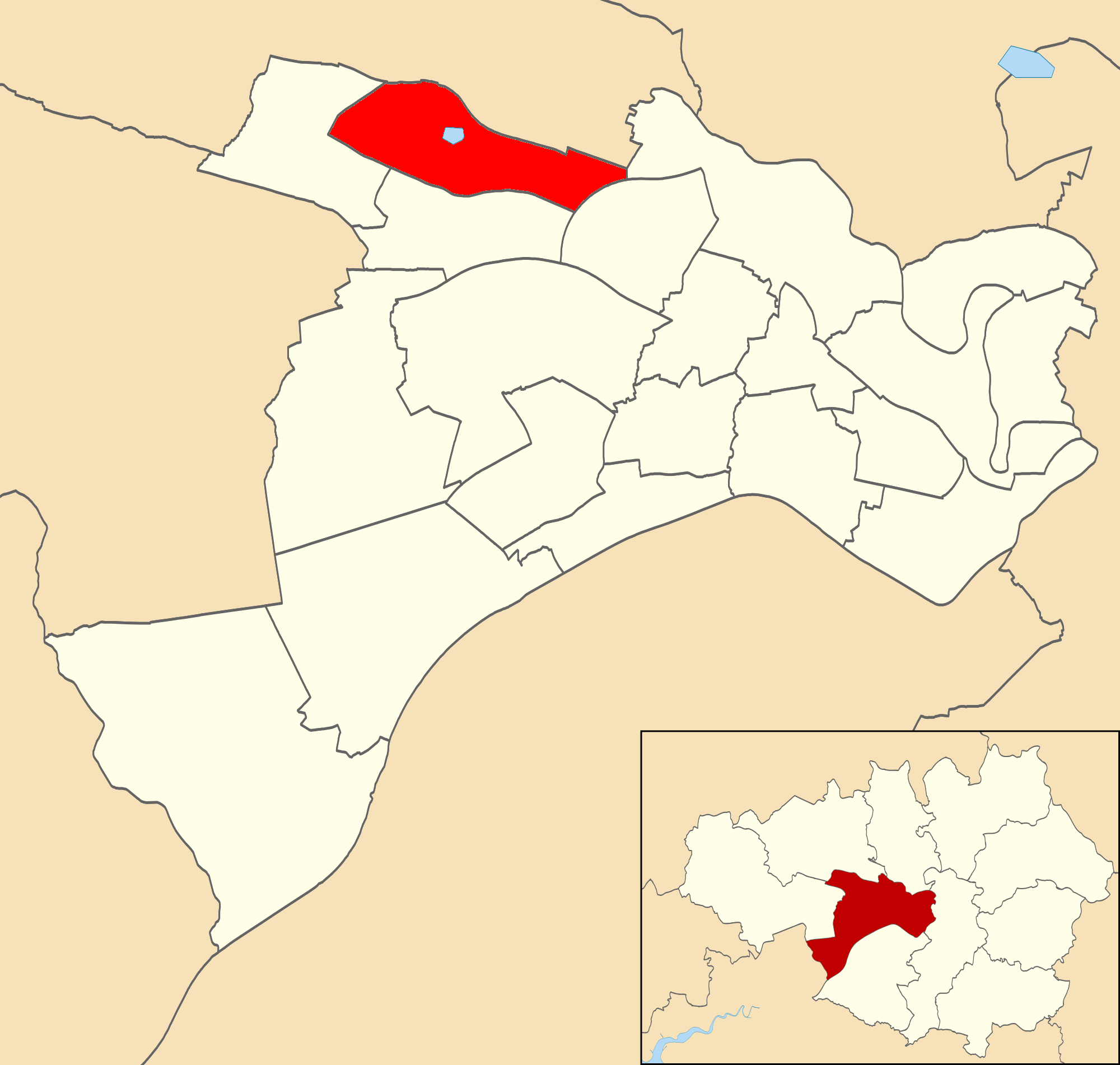 Map showing location of Walkden North ward within Salford City Council.